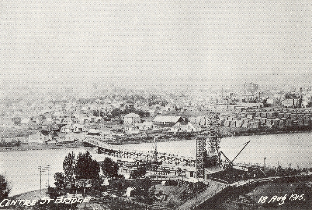 Scaned photo of Calgary's Centre Street Bridge under construction in 1915. Looking Southwest across the Bow River toward downtown